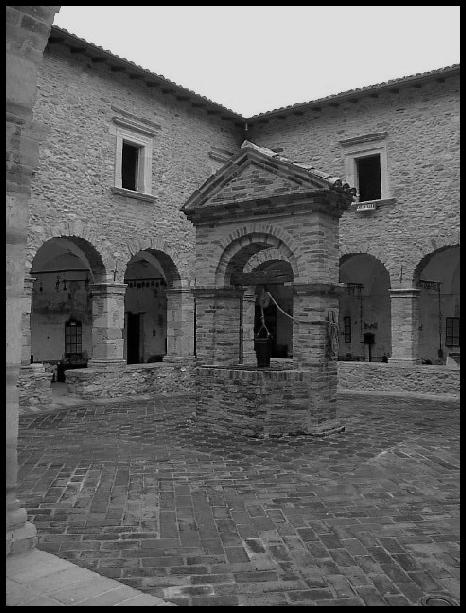 Chiostro degli Zoccolanti in Montorio al Vomano